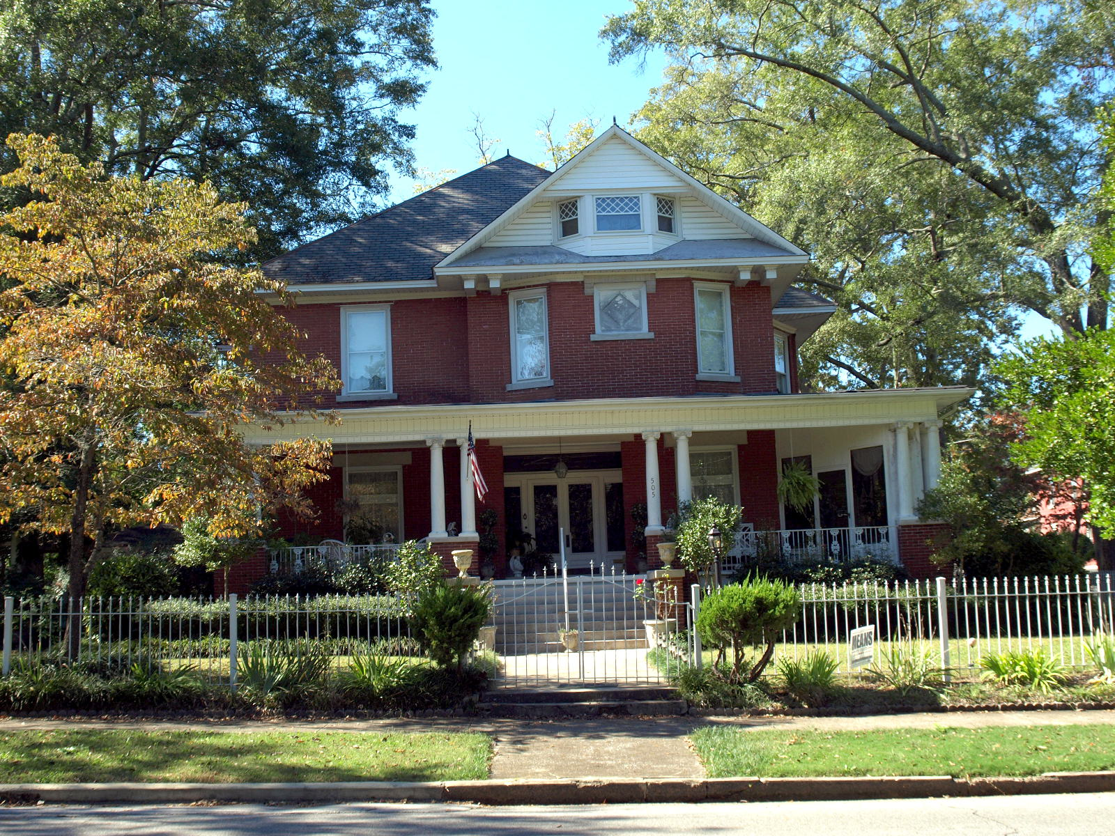 505 Turrentine Avenue in Gadsden, Alabama, part of the Turrentine Historic District